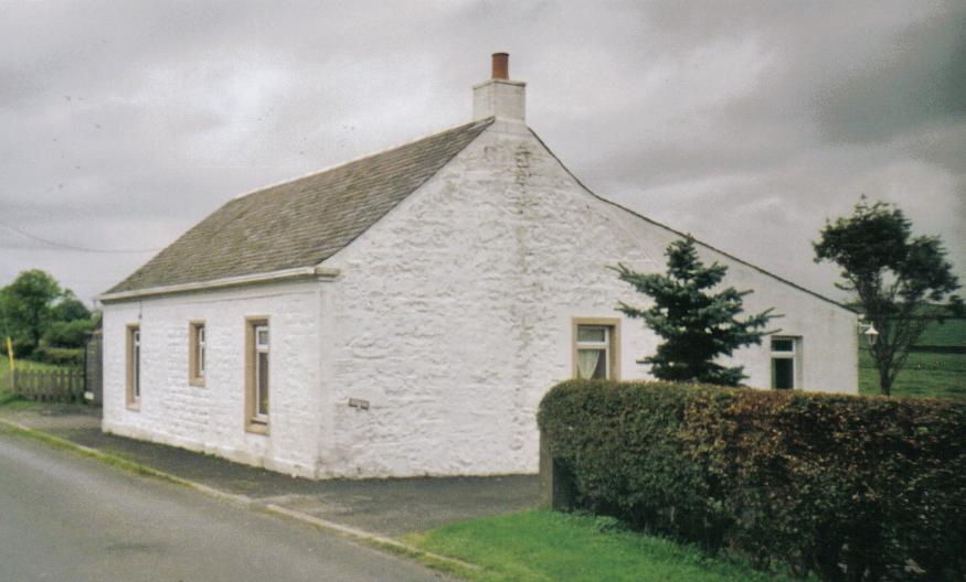 The Bloak Well near Auchentiber in Ayrshire. The building is now called Salt Well Cottage.